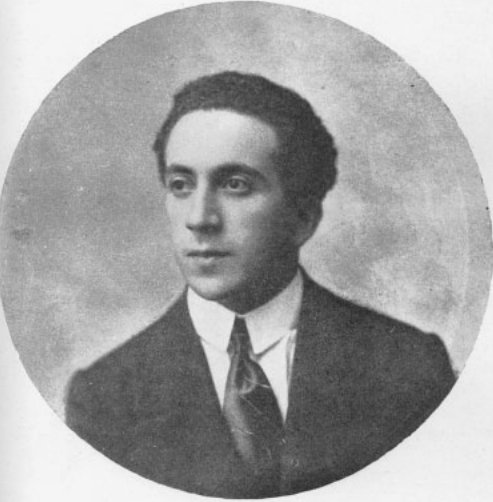 Esteban Iturra Pacheco (1892-1965), chilean musician and politician, as a diplomant of National Conservatory